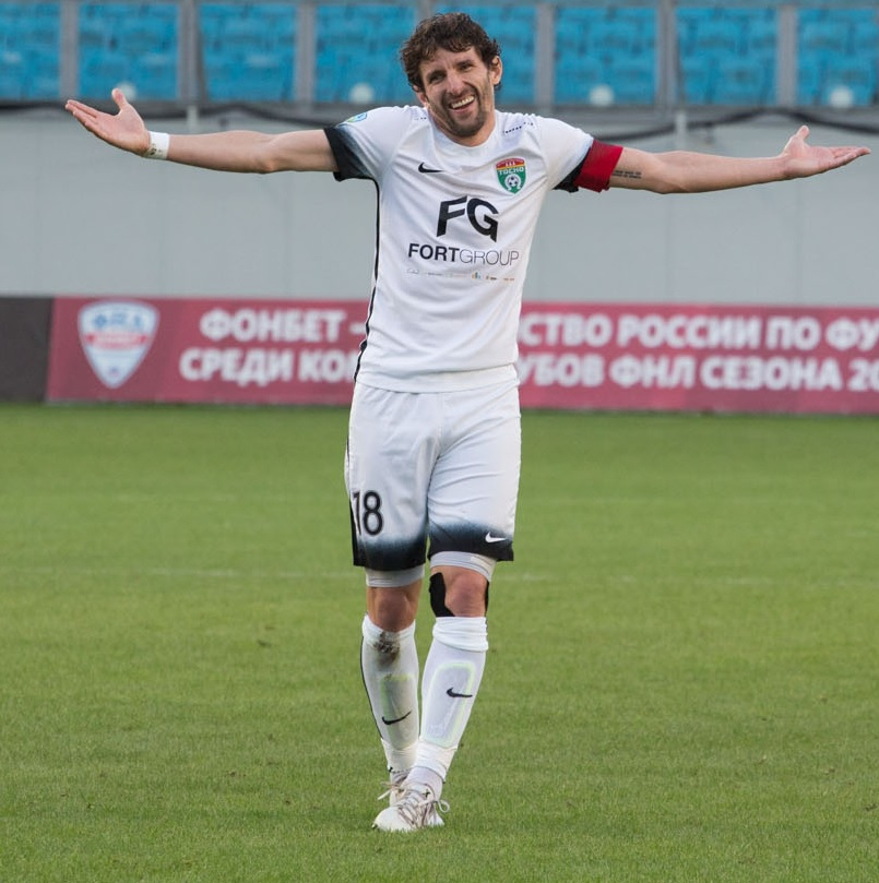 Mladen Kašćelan playing for FC Tosno against FC Dynamo Moscow.